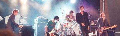 Tröckener Kecks